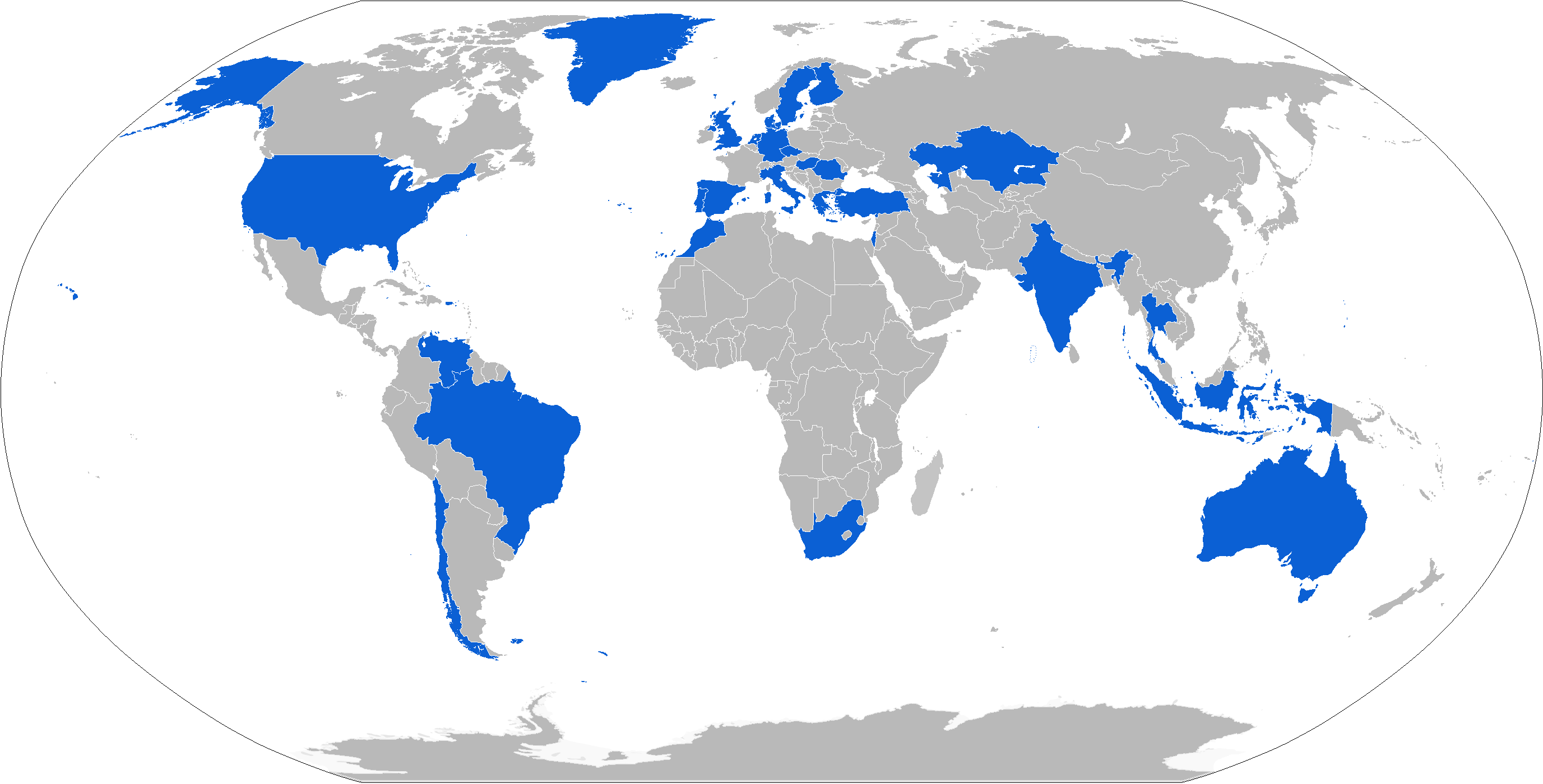 Map with LITENING operators in blue